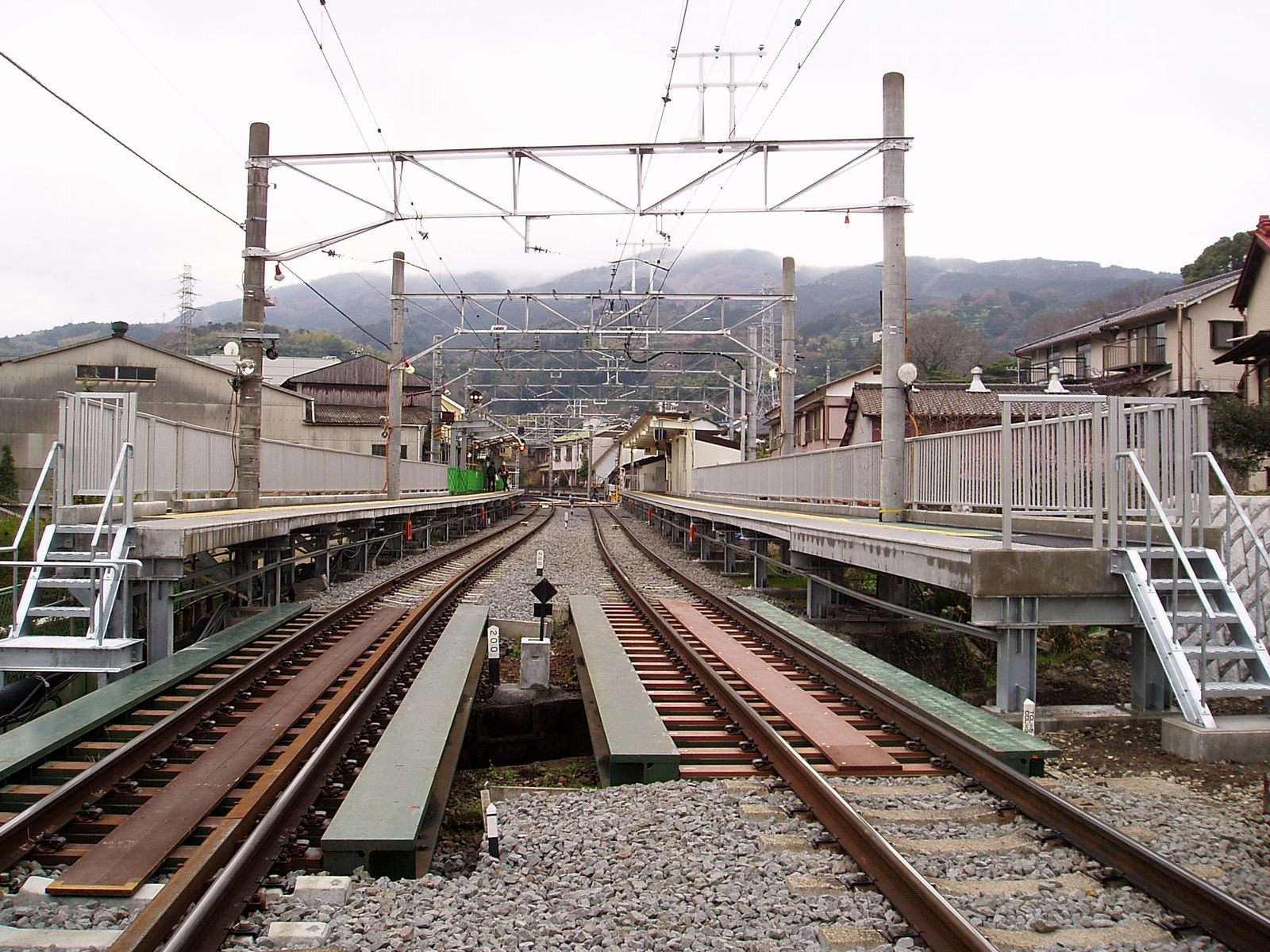 Inside of Kazamatsuri Sta